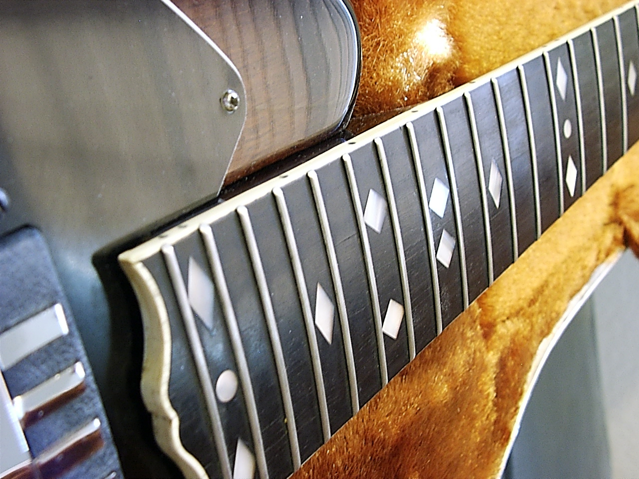 A close-up shot of the fretboard mother of pearl fret marker inlays and the ivory fretboard edge binding that differentiates the Deacon model from the Breadwinner model.